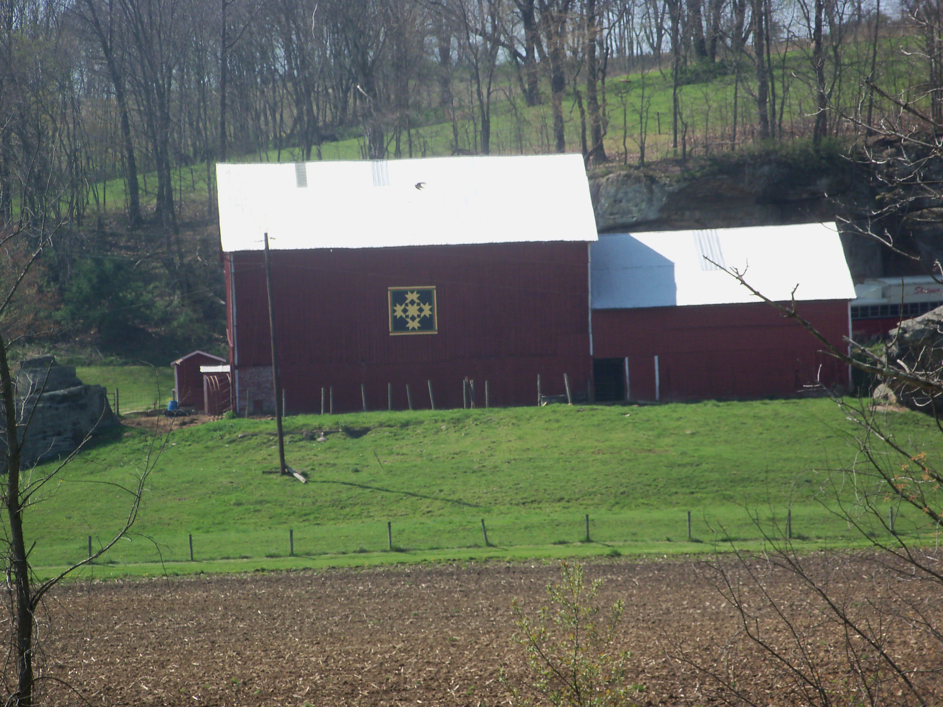 Multi star quilt block on red barn seen from Ohio State Route 93